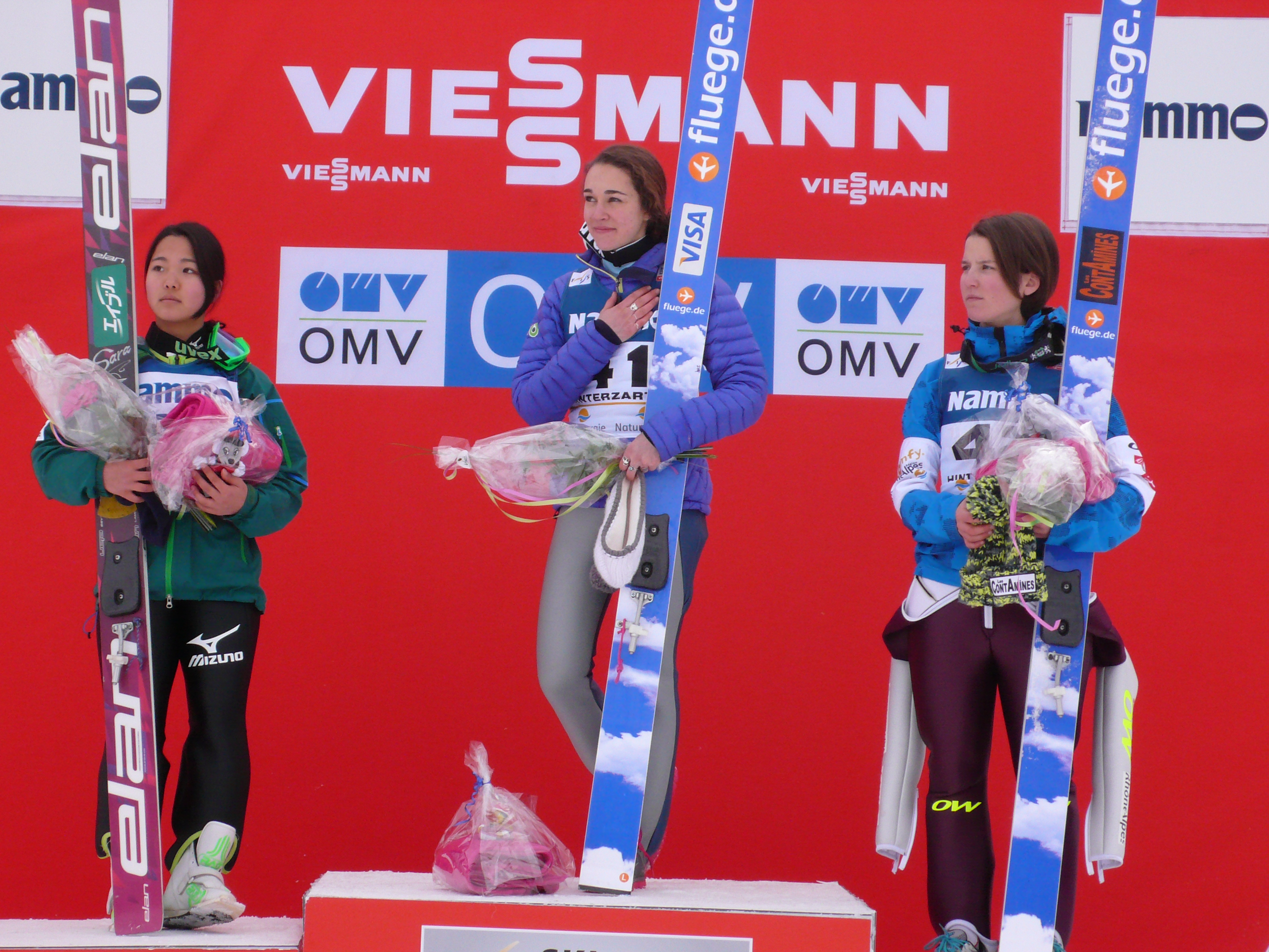 1: Sarah Hendrickson, 2: Sara Takanashi, 3: Coline Mattel: podium of Female Skijumping Worldcup in Hinterzarten on the 2013-01-12.